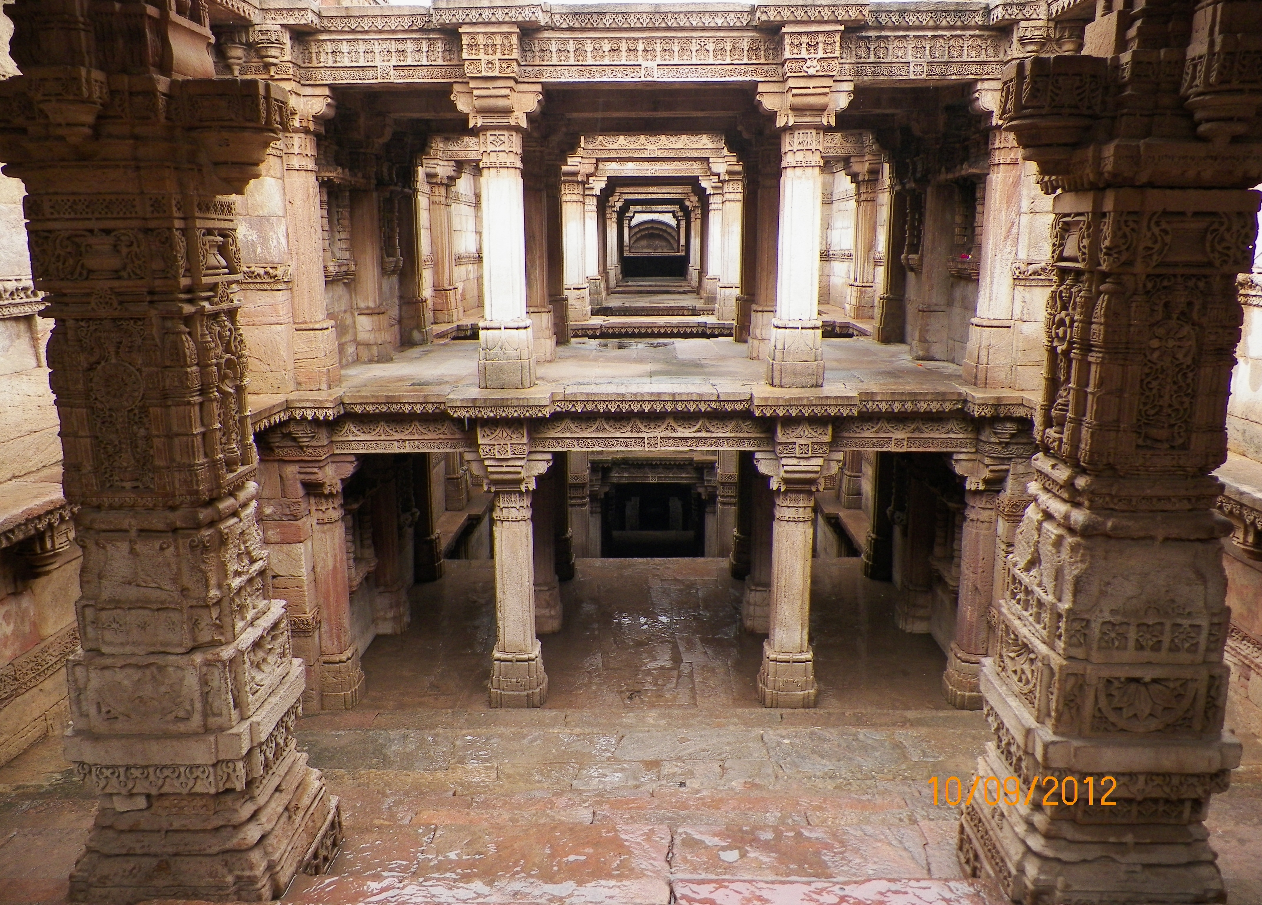 Rudabai stepwell